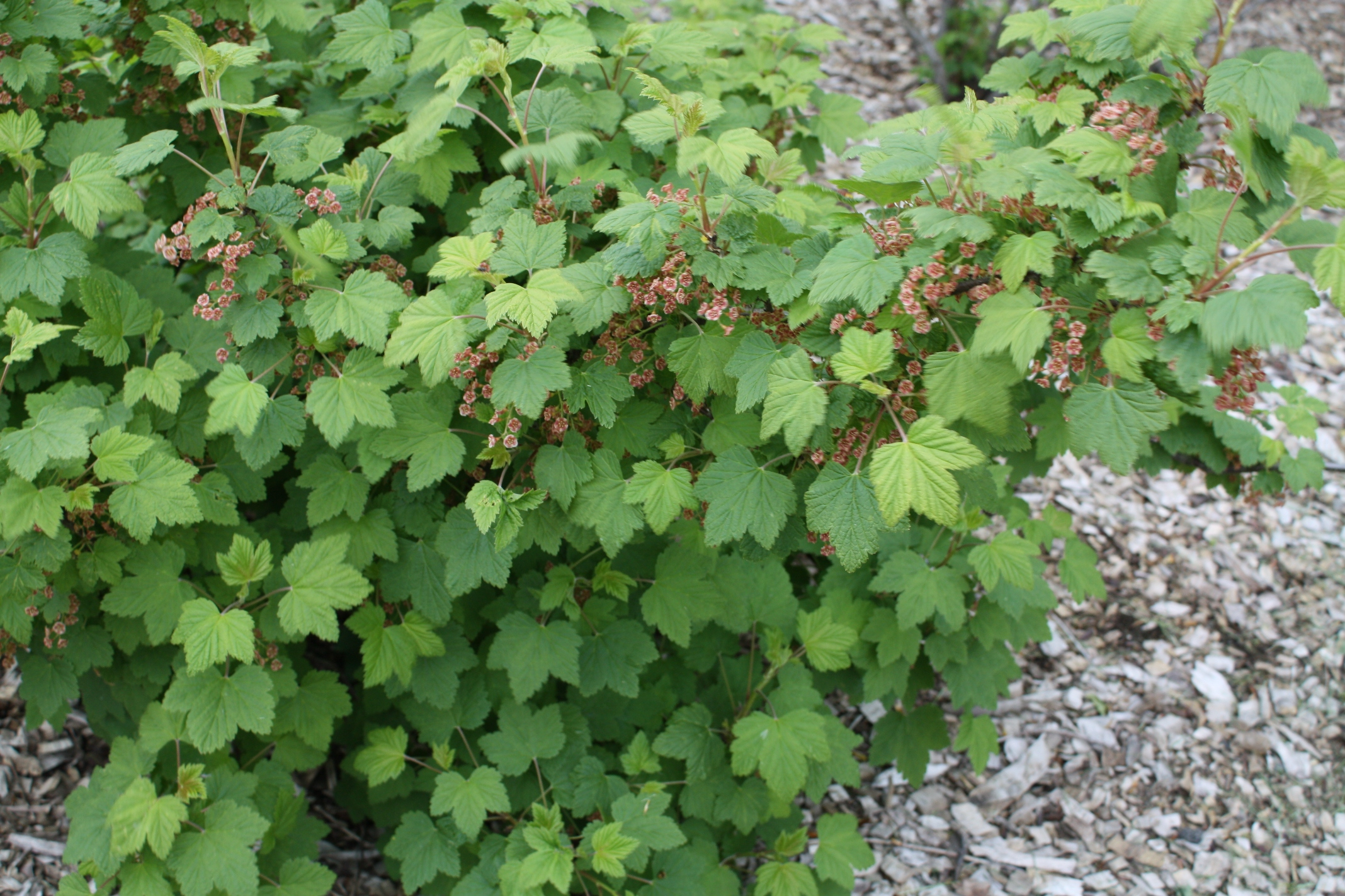 Ribes petraeum var. atropurpureum in the Reykjavik Botanic Garden